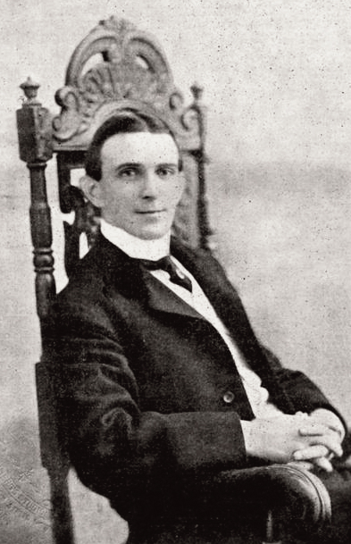 Portrait of American popular composer J. Fred Helf, ca. 1905